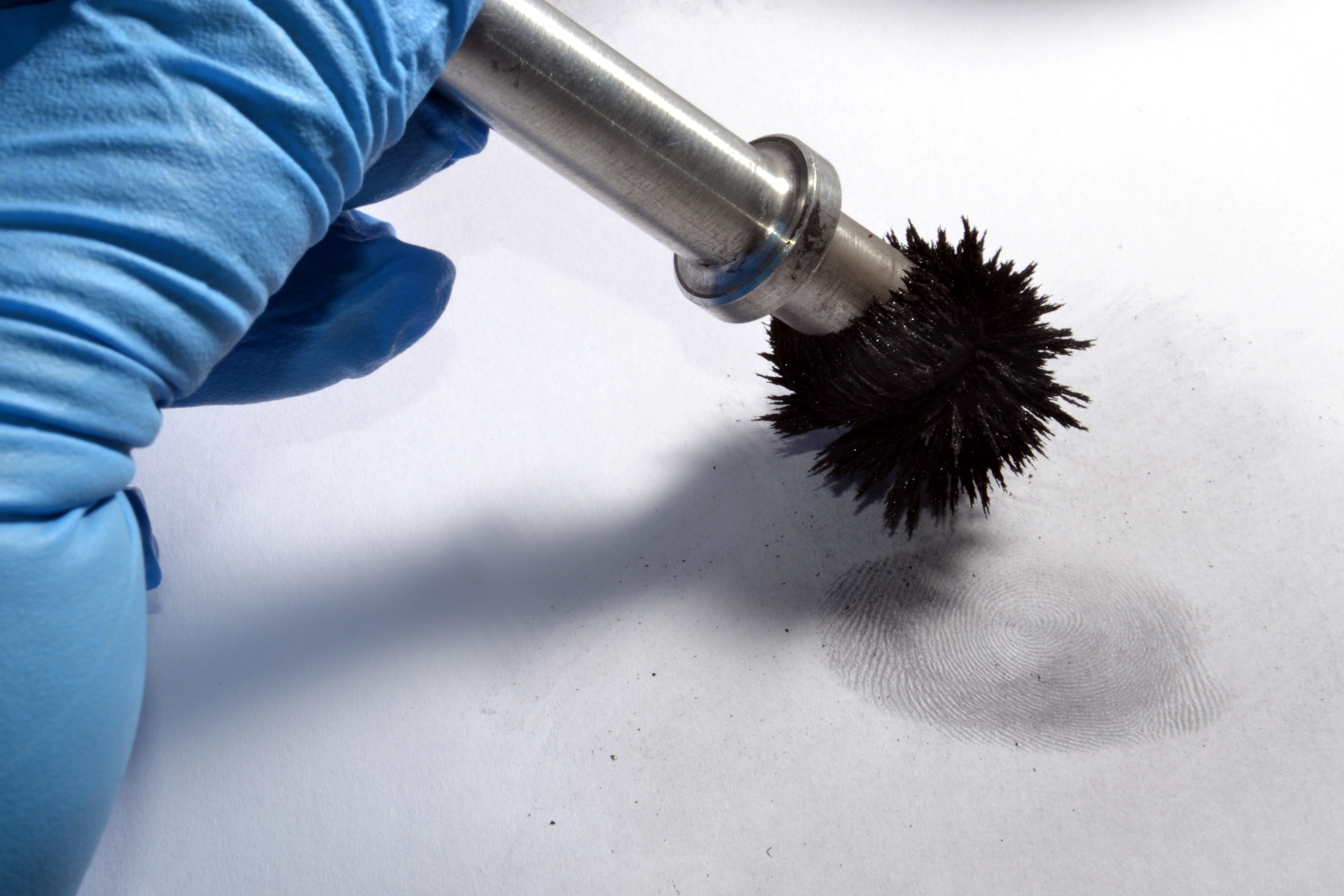 Forensic scientist develop a latent fingerprint with magna brush